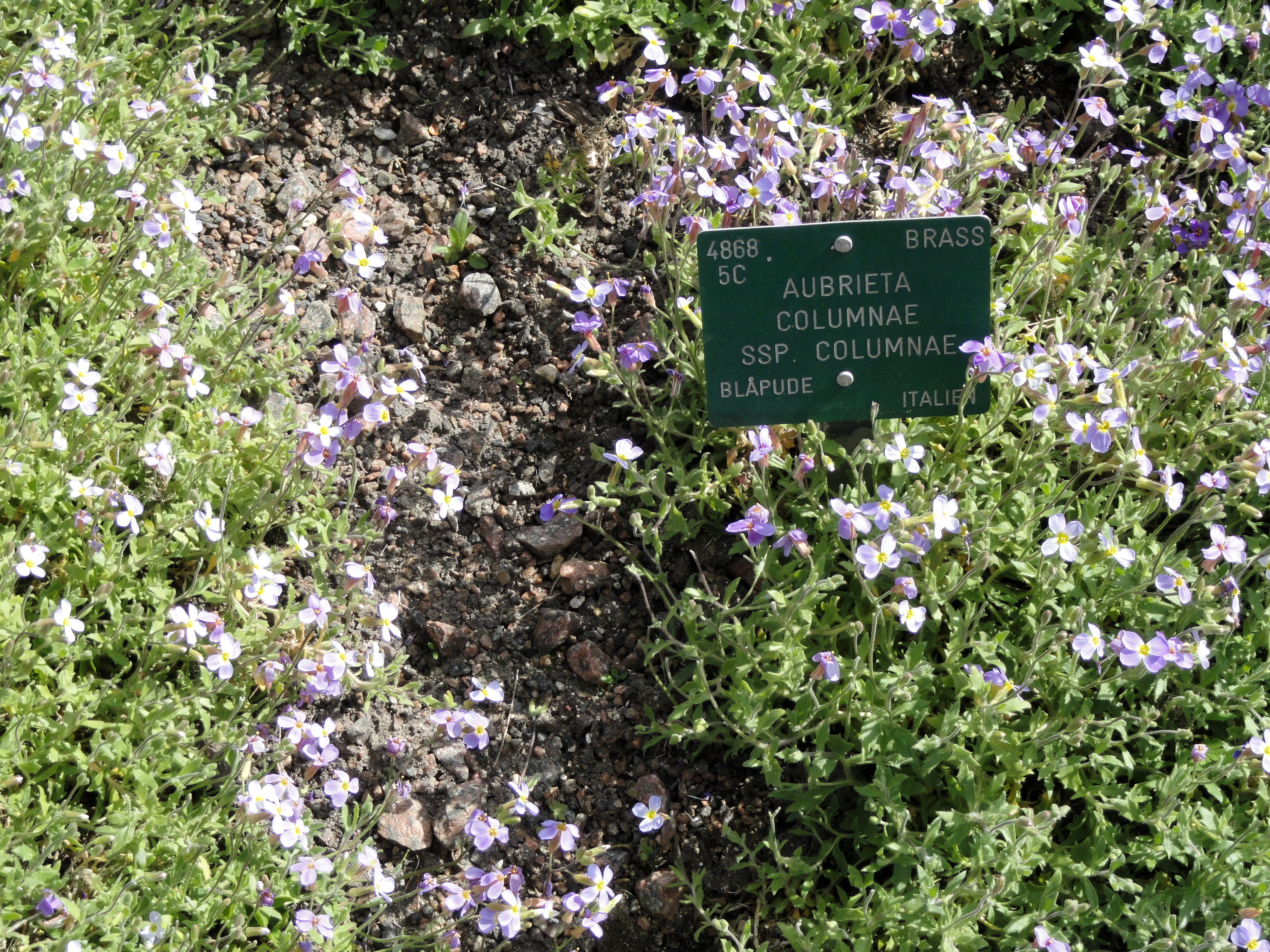 Botanical specimen in the University of Copenhagen Botanical Garden, Copenhagen, Denmark.